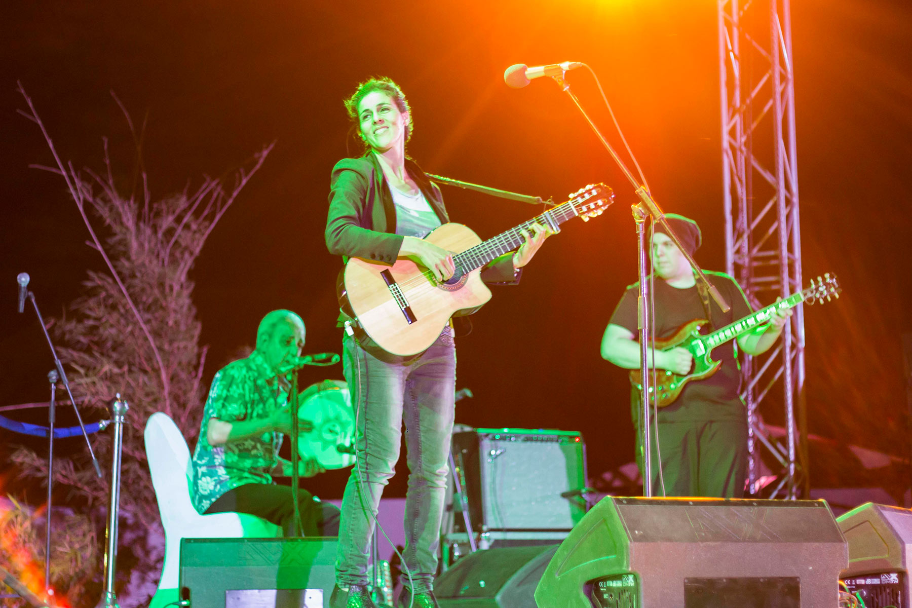 Souad Massi at The Marquee